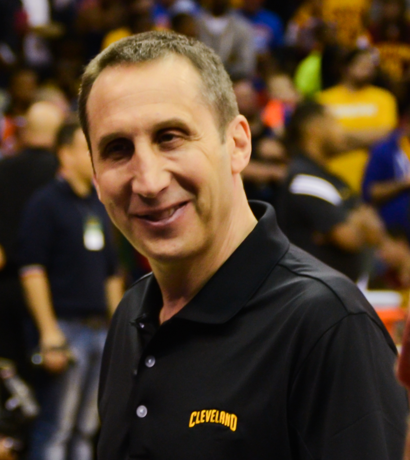 David Blatt during 2014 Wine and Gold Scrimmage